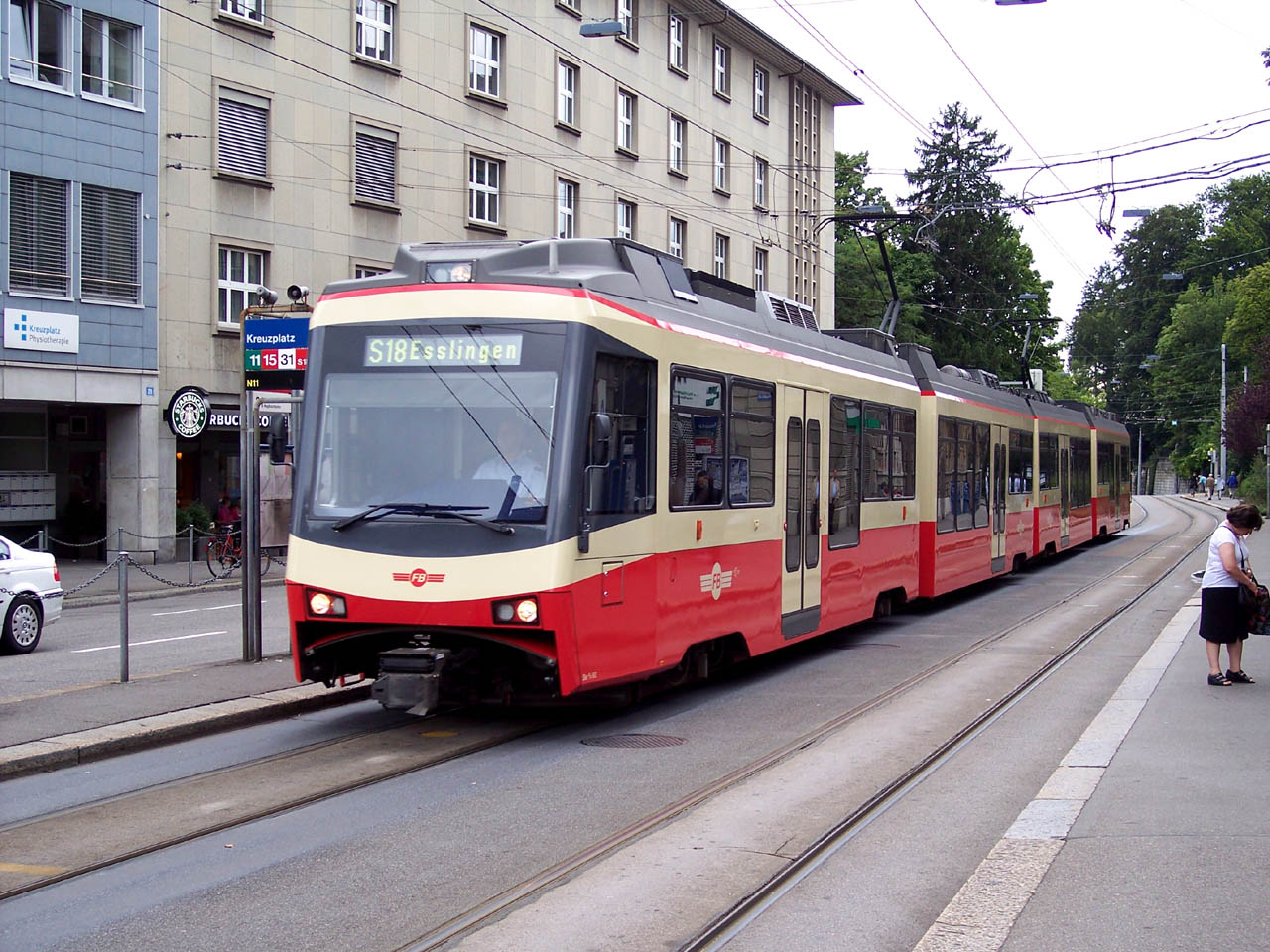 A Forchbahn interurban train formed by Stadler Be4/6 sets arrives at Kreuzplatz on its way to Esslingen. Forchbahn shares tracks with Verkehrsbetriebe Zürich trams on this part of the line.